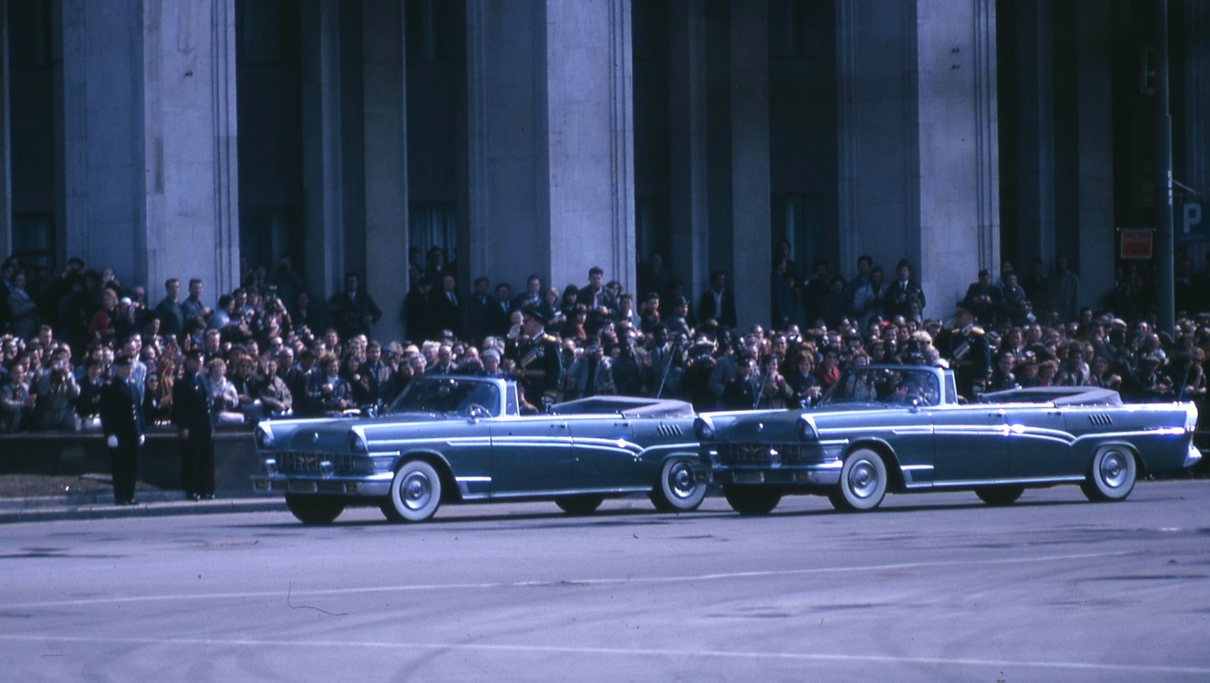 These images were taken by Thomas T. Hammond during his trip to the Soviet Union. This specific image features May Day in 1964 in Moscow.